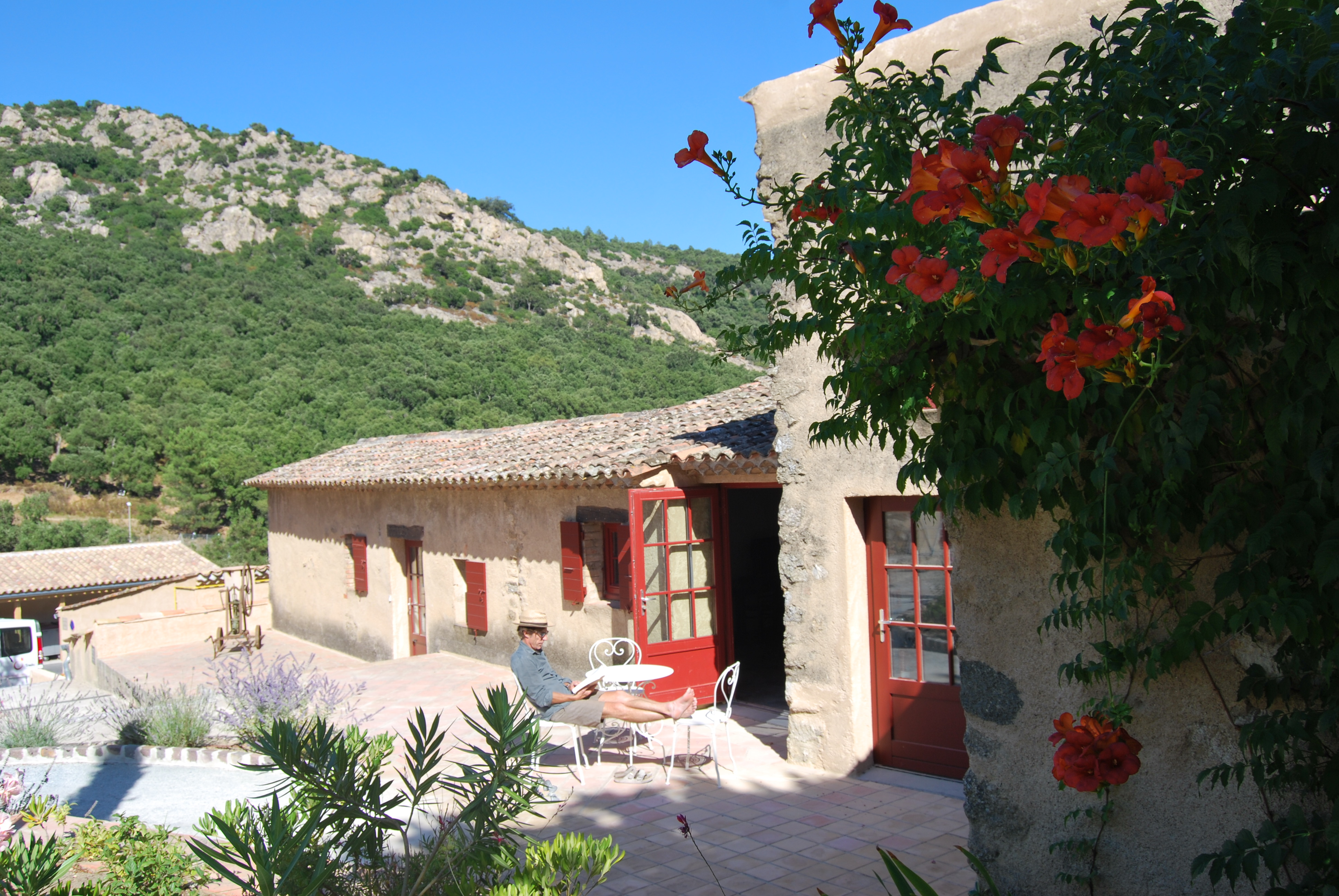 Village Club Du Soleil Le Reverdi